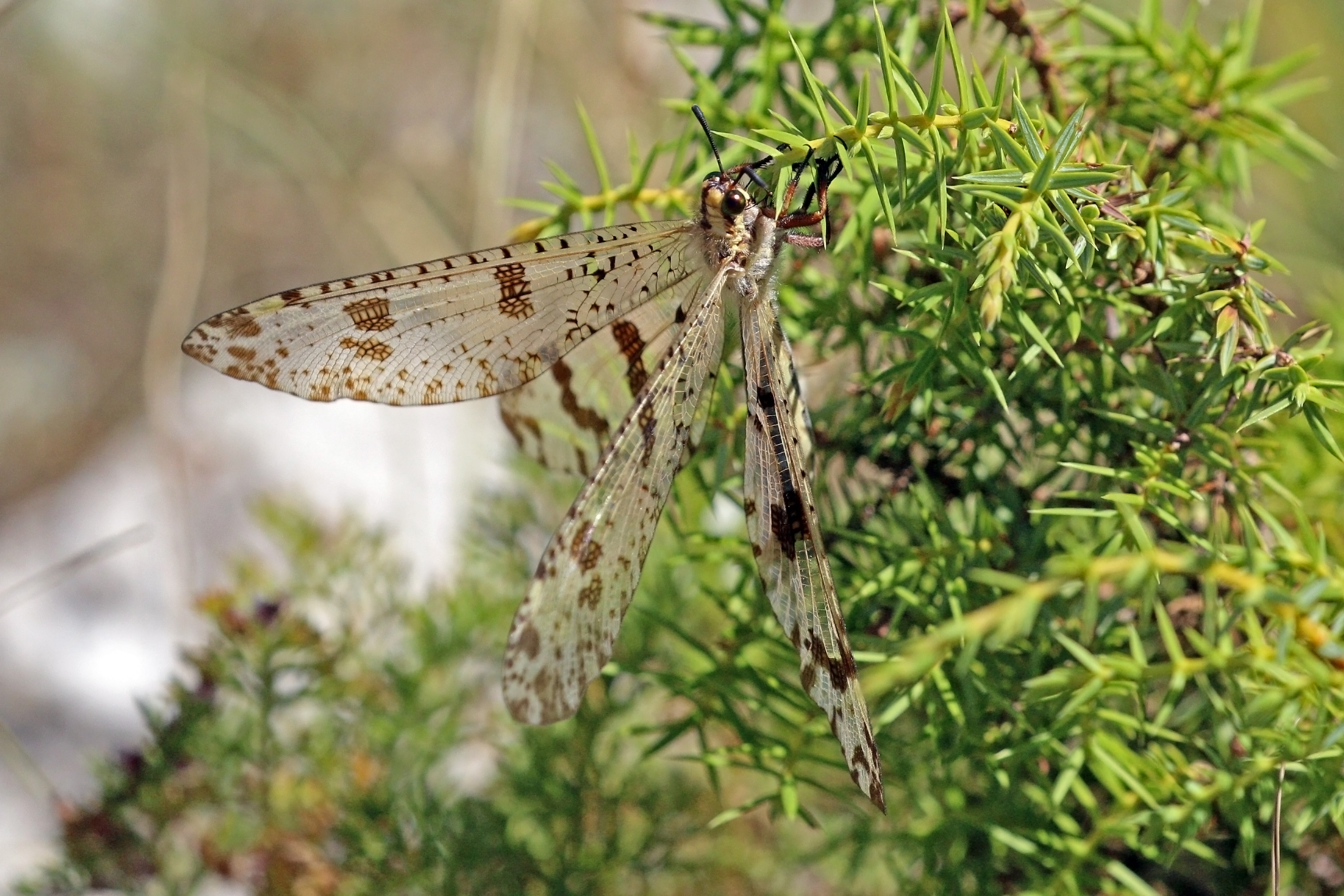 Antlion (Palpares libelluloides), Pletvar, Republic of Macedonia